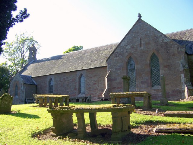 Bendochy Parish Kirk The evening light highlights the tombs and features of the kirk.